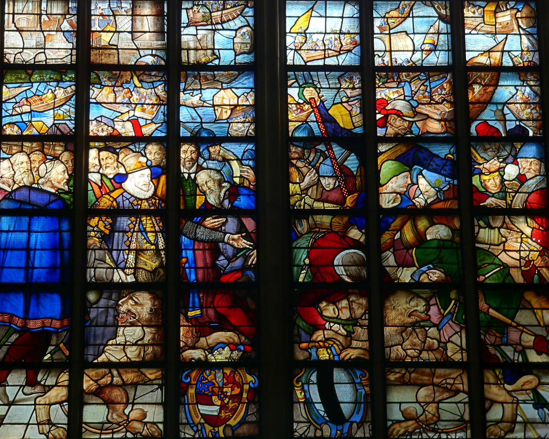 The stained-glass window number 25 (middle) in the Sint Janskerk at Gouda/Netherlands: "The relief of Leiden"